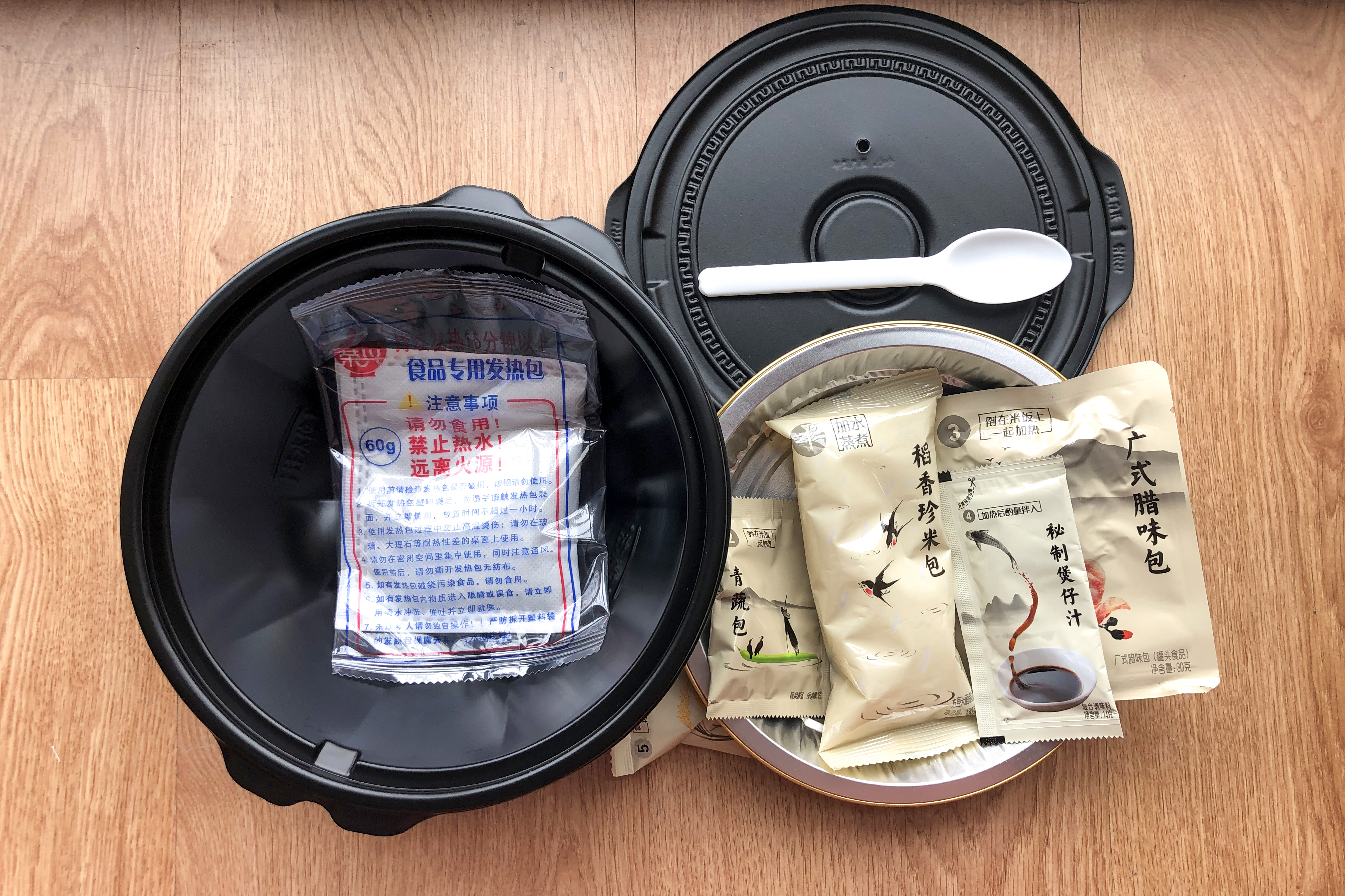 The flameless ration heater in the bowl contains calcium oxide, sodium bicarbonate and aluminum powder. What should be placed in the plate is raw rice, as well as toppings.